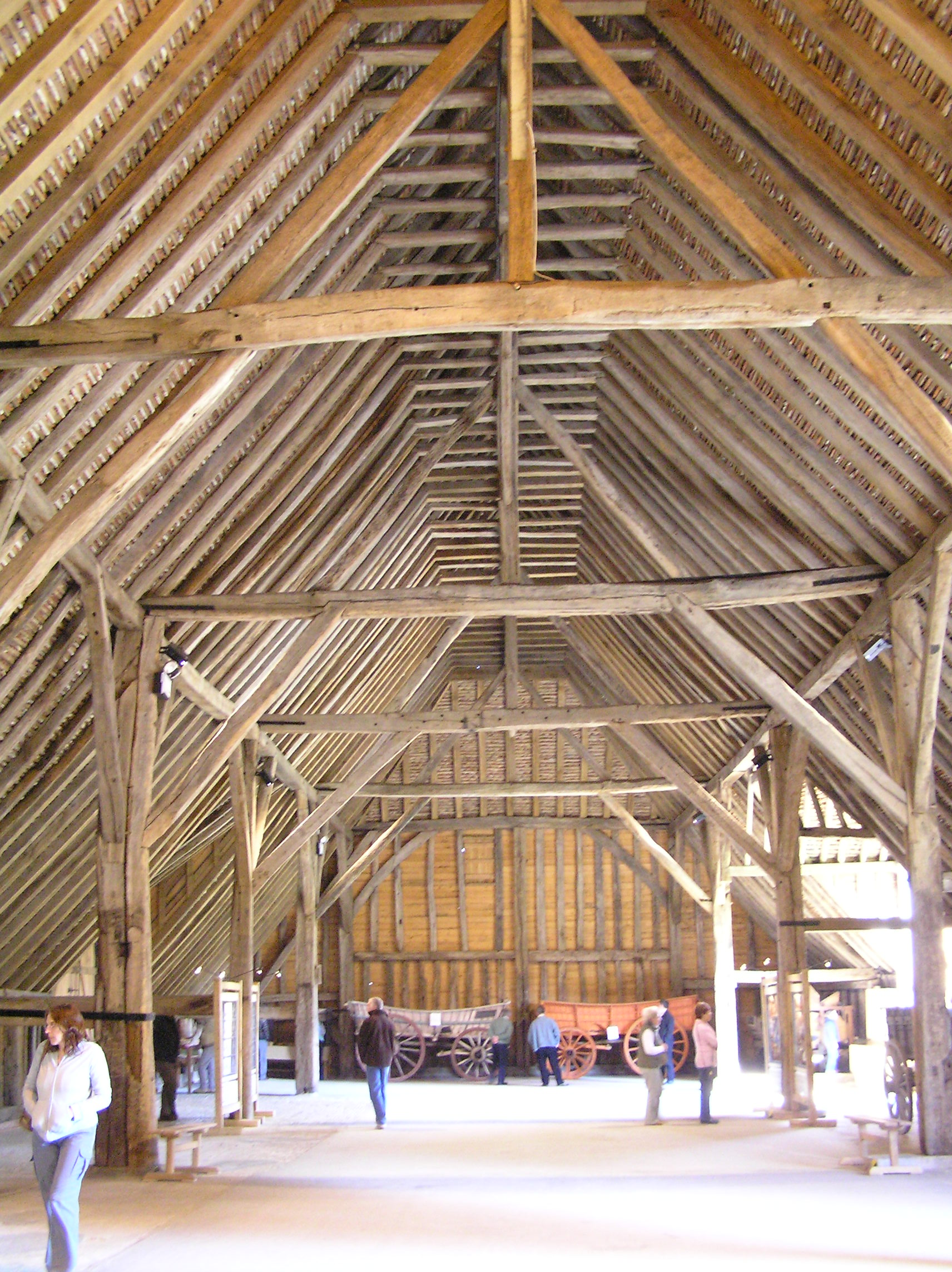 Grange Barn Coggeshall. Internal shot looking south. The barn is now home to exhibitions about the restoration of the site, local agricultural industry and local monastic history.